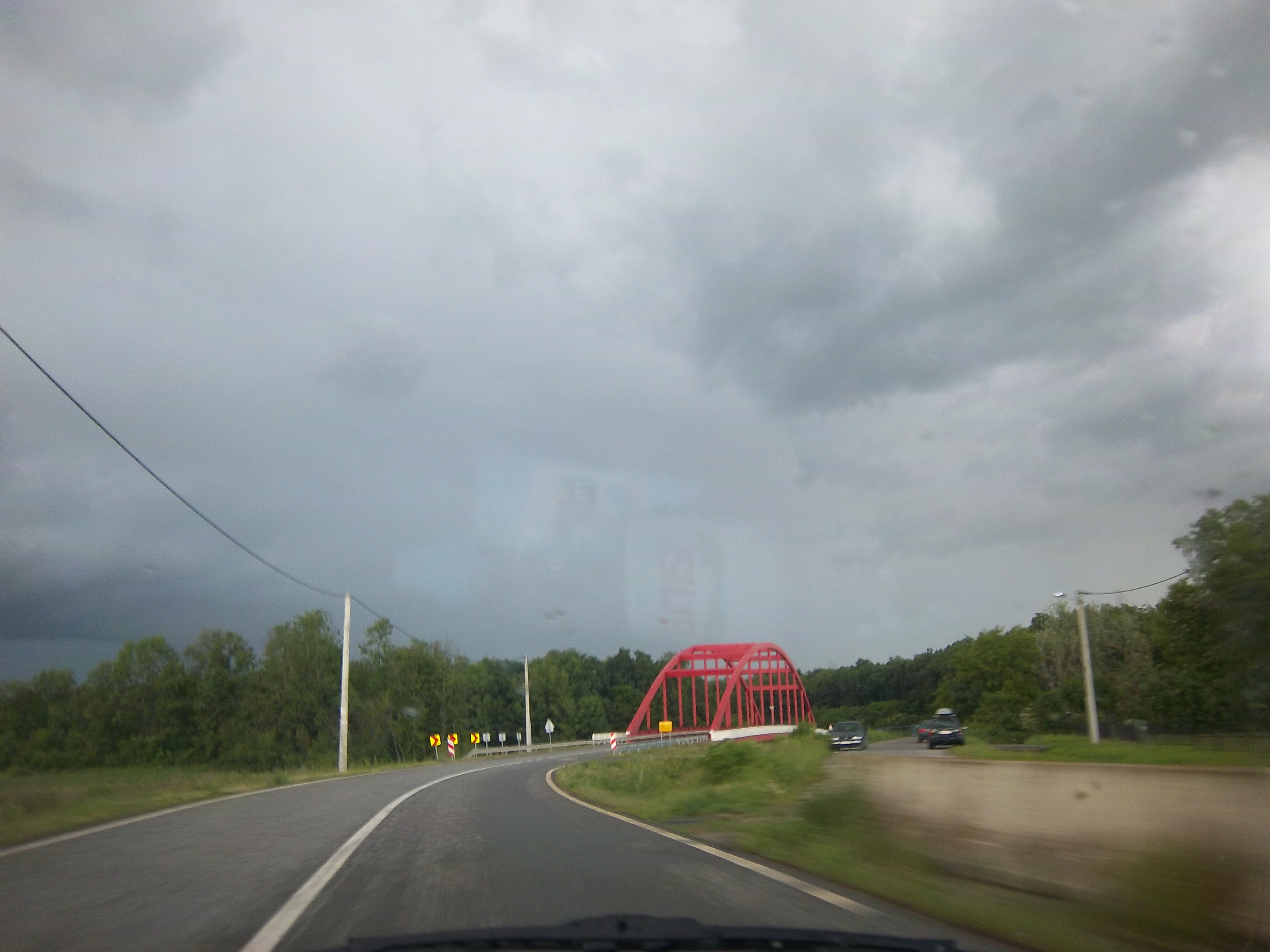 Spačva river bridge in Lipovac, Vukovar-Syrmia County (Croatia)